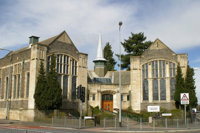 Cathays Library Cathays Library. Wide View. This is at a very busy crossroads at the cusp of ST1877. To the left of the picture is Whitchurch Road, straight past the building is Fairoak Road, behind me is Cathays Terrace and to the right of the Library is the long Crwys Road leading to the famous five ways "Death Junction"